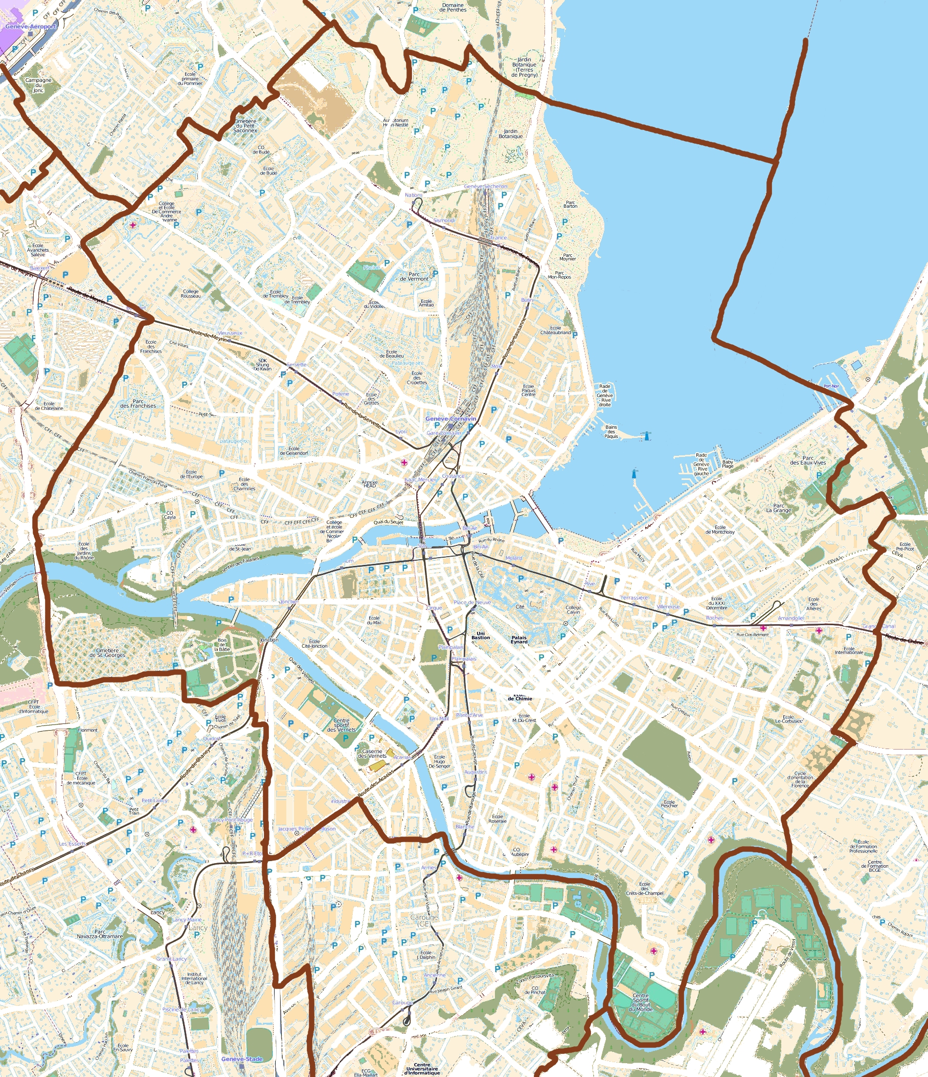 This map of Geneva was created from OpenStreetMap project data, collected by the community. This map may be incomplete, and may contain errors. Don't rely solely on it for navigation.